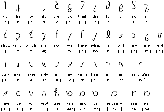 Quikscript Alphabet with phonetic transcription of the charachters